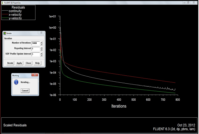 mohit fluent